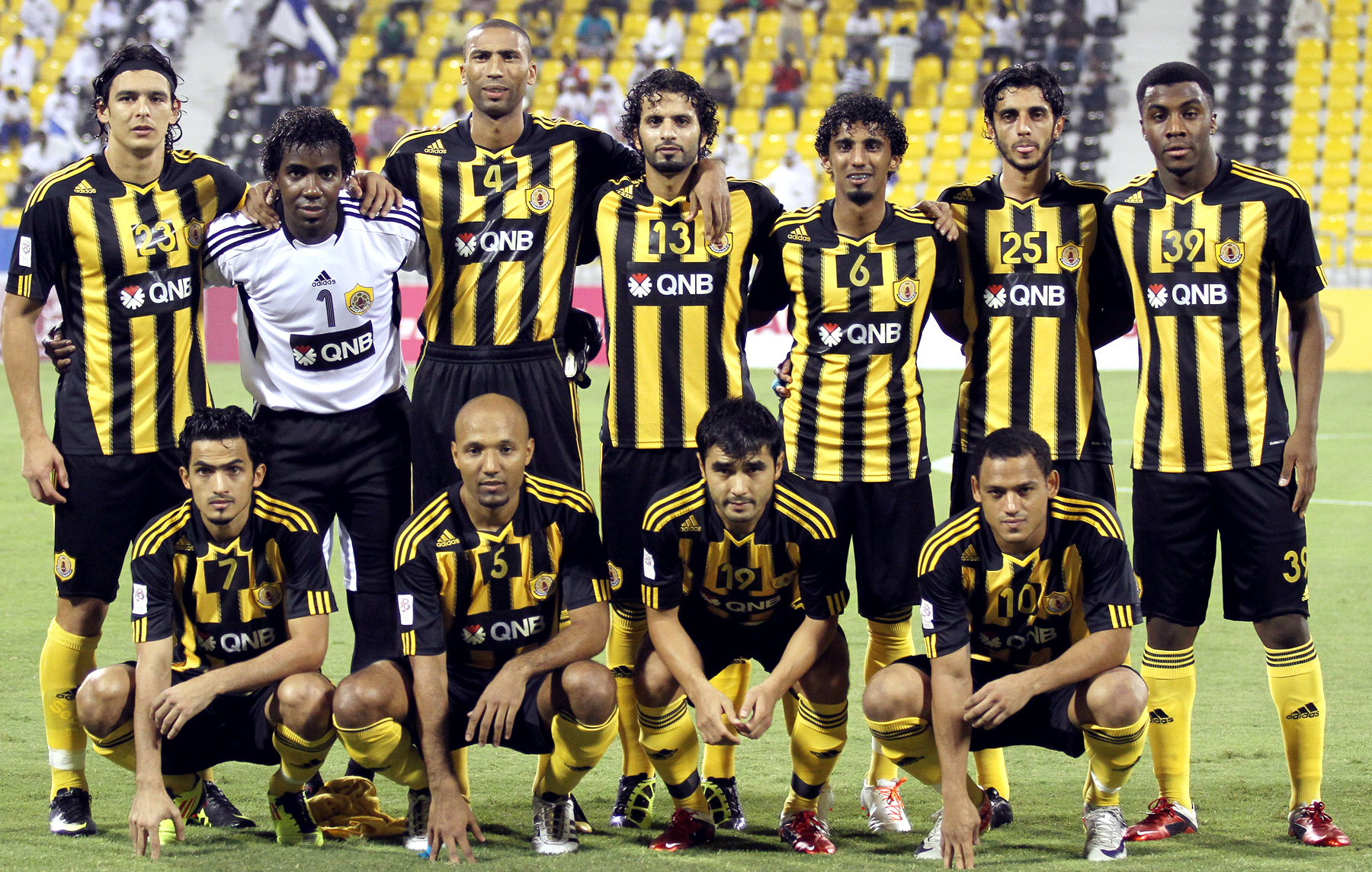 Members of the Qatar Sports Club team pose for the camera prior to a Qatar Stars League match. Pic by Vinod Divakaran